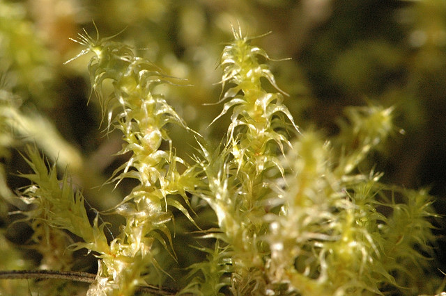 Picture taken in Commanster, Belgian High Ardennes . Species: Rhytidiadelphus squarrosus